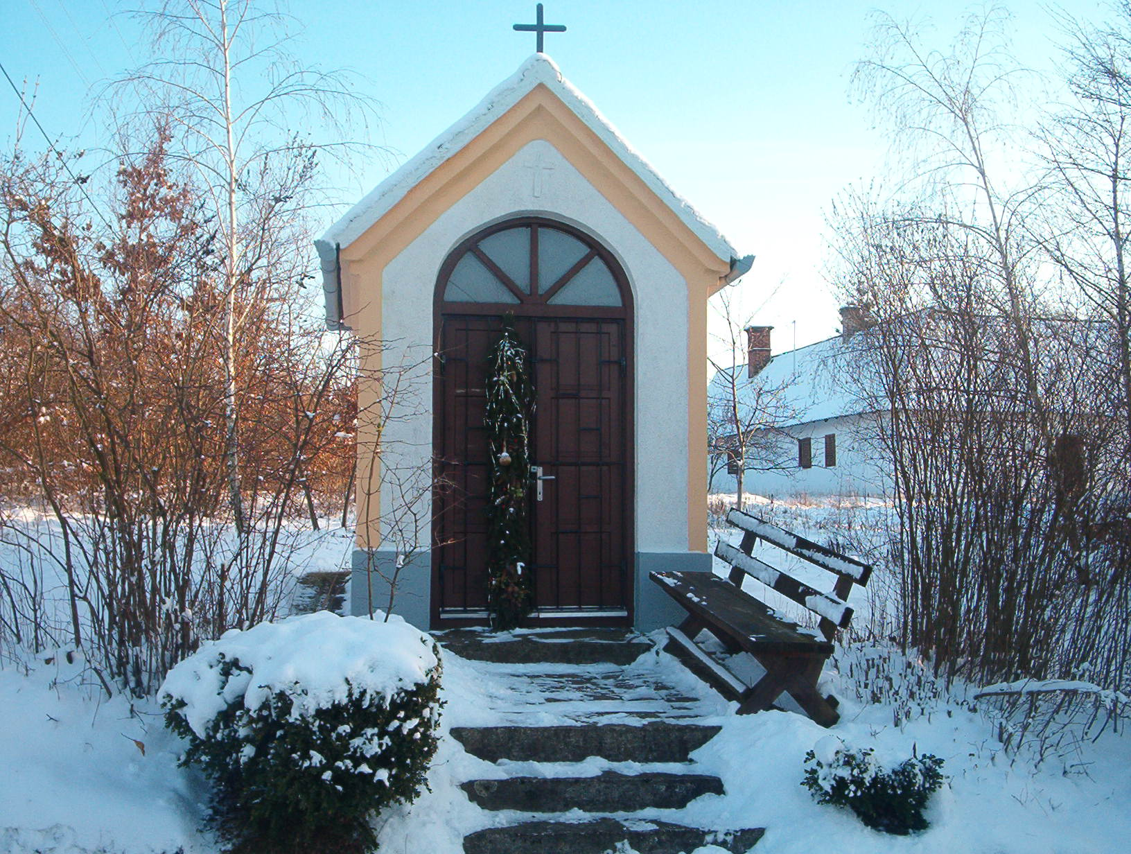 The Sulics-capel in Kétvölgy